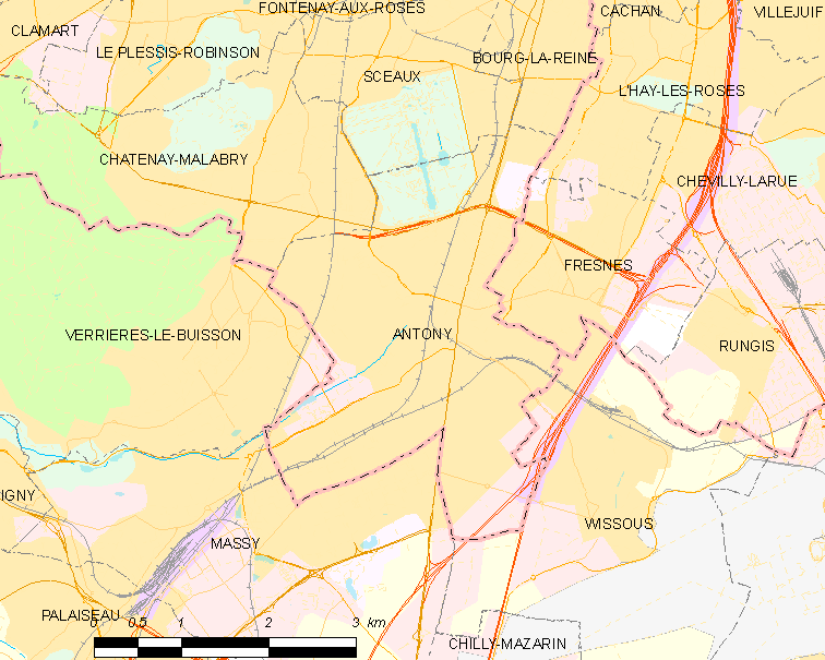 Map of French municipality Antony